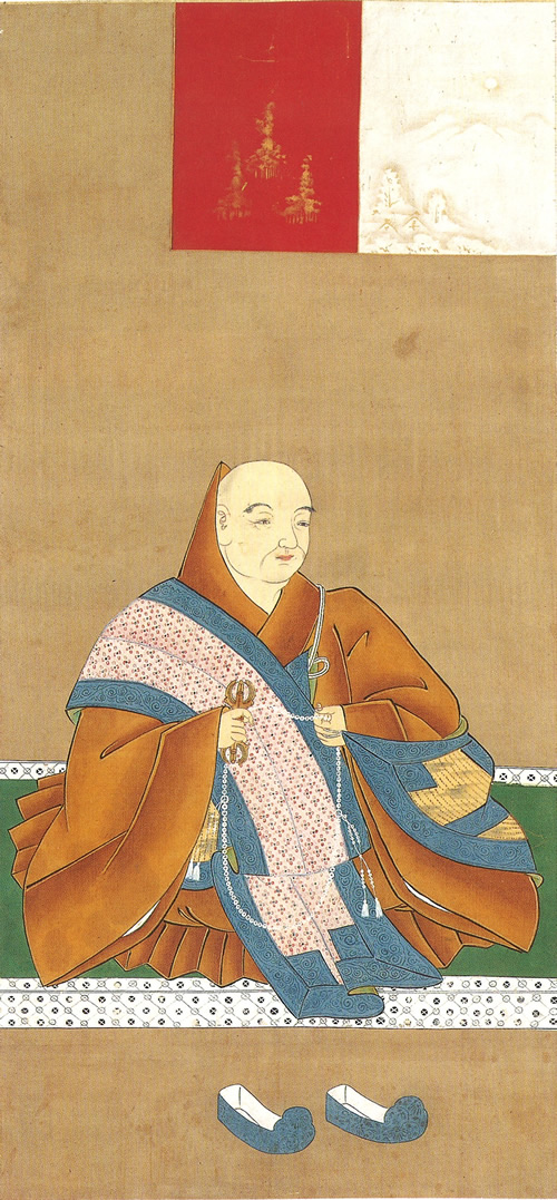 Portrait of Sanbō-in Kenshun, a patriarch of Daigo-ji, Kyoto. Painted during the Muromachi Period.